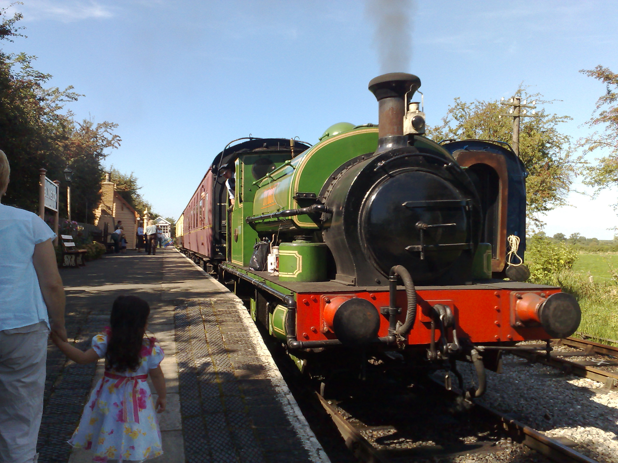 Built in 1924, and now in steam at the Swindon and Cricklade Railway